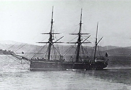 AWM caption : "PORT SIDE VIEW OF THE SCREW COVETTE HMS DANAE AT ANCHOR, POSSIBLY IN TASMANIAN WATERS."